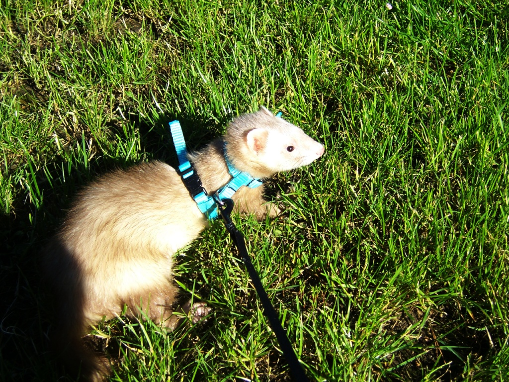 ferret